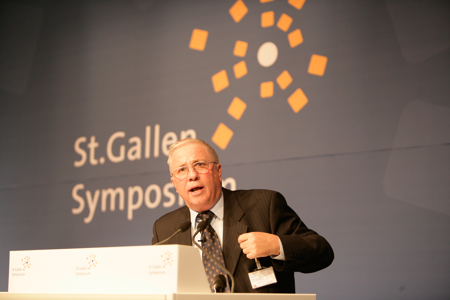 Christoph Blocher in May 2006 at the 36. St. Gallen Symposium at the University of St. Gallen